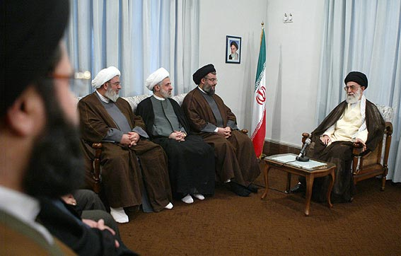 Hizbullah Secretary-General and his delegation meeting with Seyyed Ali Khamenei in 2005